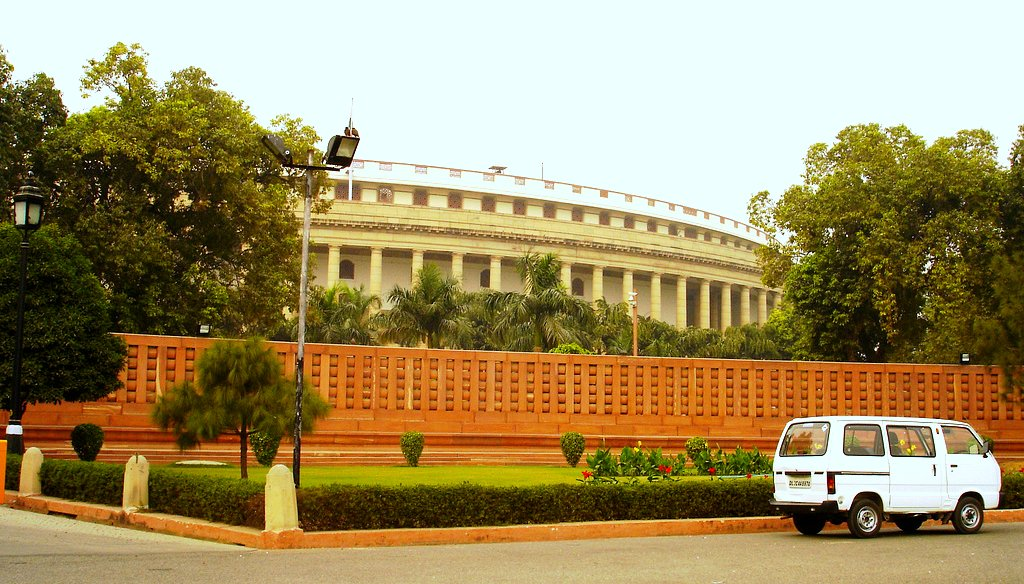 The Parliament of India